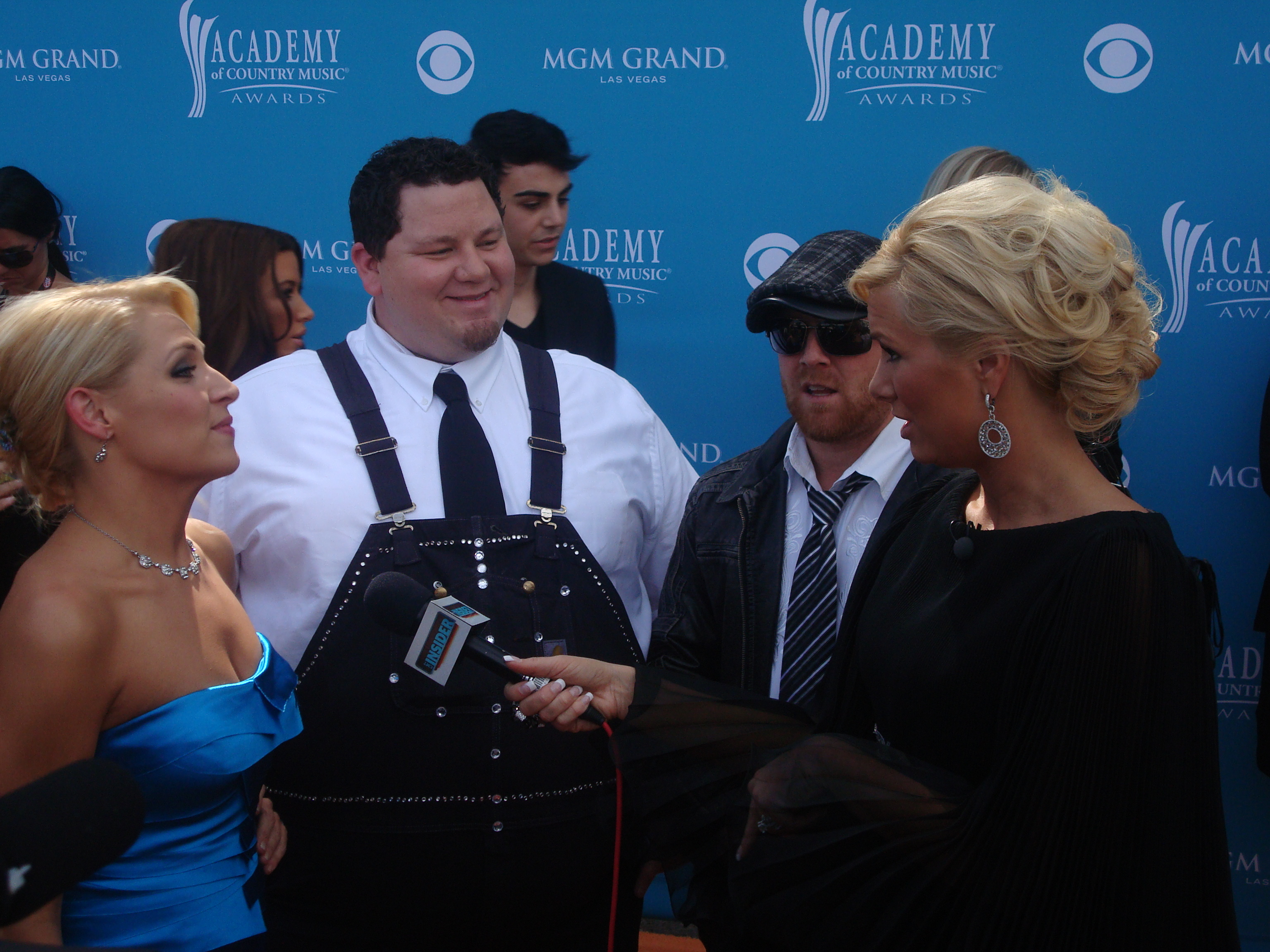 Country music group Trailer Choir being interviewed by Allison DeMarcus. L-R: Crystal, Big Vinny, Butter.